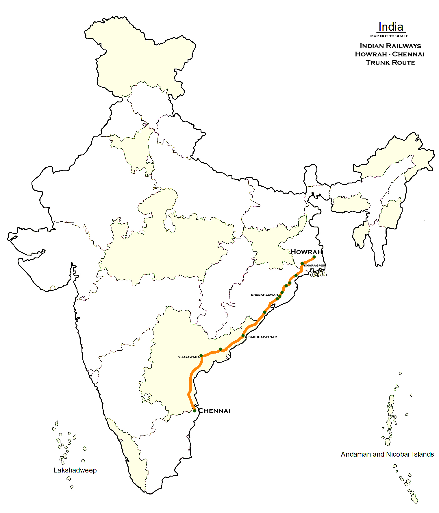 (HWH_MAS) Coromandel Express Route map